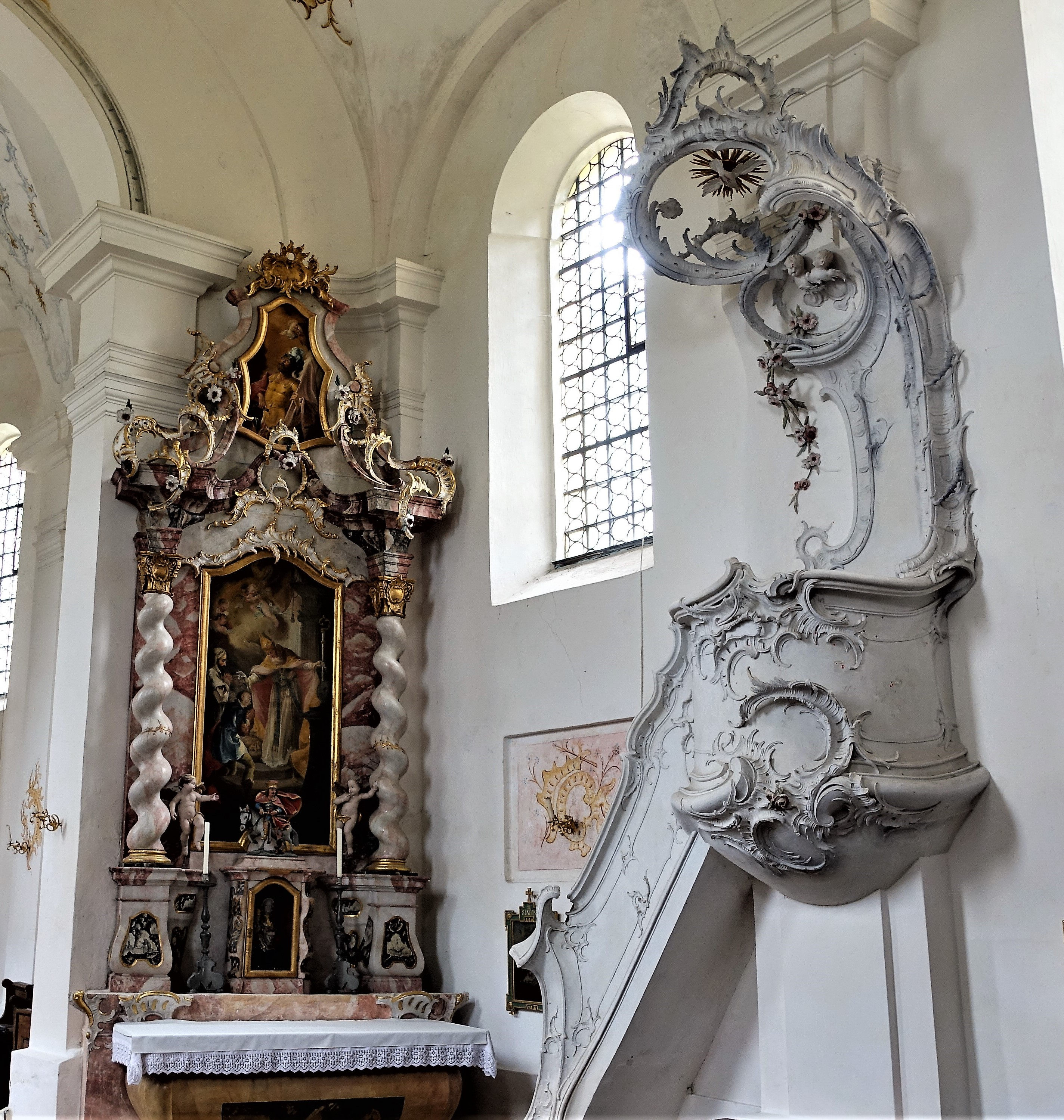 Masterpiese of the Rokkoko. Pulpit with filigran "Rocaille" made from plasterThis is a photograph of an architectural monument.